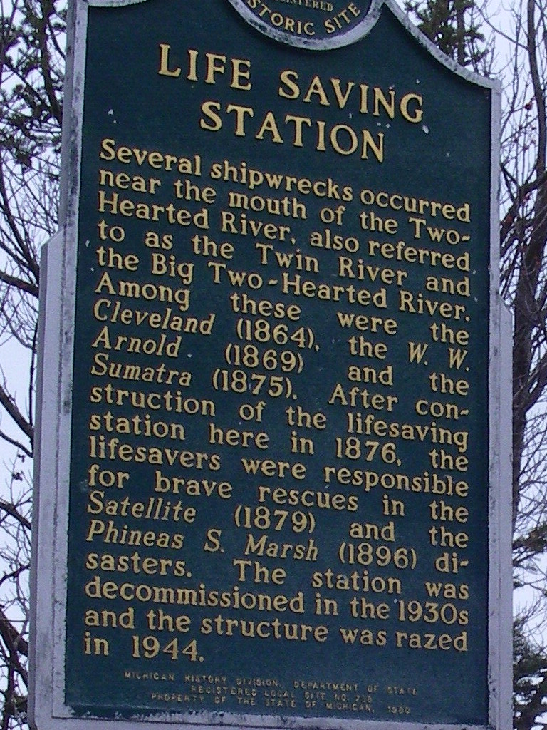 State of Michigan historic marker for the Two Hearted Life-saving Station